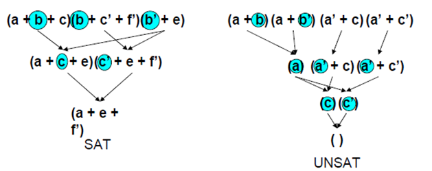 Two example runs of the Davis-Putnam procedure. Left: The formula ( a ∨ b ∨ c ) ∧ ( b ∨ ¬ c ∨ ¬ f ) ∧ ( ¬ b ∨ e ) {\displaystyle (a\lor b\lor c)\land (b\lor \lnot c\lor \lnot f)\land (\lnot b\lor e)} is satisfiable: starting from the given formula (top row), resolving each possible clause pair on the variable b {\displaystyle b} yields the middle row, then resolving each pair on c {\displaystyle c} yields the bottom row a ∨ e ∨ ¬ f {\displaystyle a\lor e\lor \lnot f} . Since no further resolution steps are possible, the algorithm stops; since the empty clause couldn't be derived, the result is "satisfiable". In fact, instantiating e.g. a = b = e = true {\displaystyle a=b=e={\textit {true } will make the original formula true {\displaystyle {\textit {true } . Right: The formula ( a ∨ b ) ∧ ( a ∨ ¬ b ) ∧ ( ¬ a ∨ c ) ∧ ( ¬ a ∨ ¬ c ) {\displaystyle (a\lor b)\land (a\lor \lnot b)\land (\lnot a\lor c)\land (\lnot a\lor \lnot c)} is unsatisfiable: starting from the given formula (top row), resolving all pairs on b {\displaystyle b} , then on a {\displaystyle a} , then on c {\displaystyle c} yields the 2nd, 3rd, and 4th row from above, respectively. Since the latter is the empty clause, the algorithm halts with result "unsatisfiable". In fact, each row is a consequence of the row above it, and the bottom row denotes false {\displaystyle {\textit {false } , which certainly cannot be satisfied.